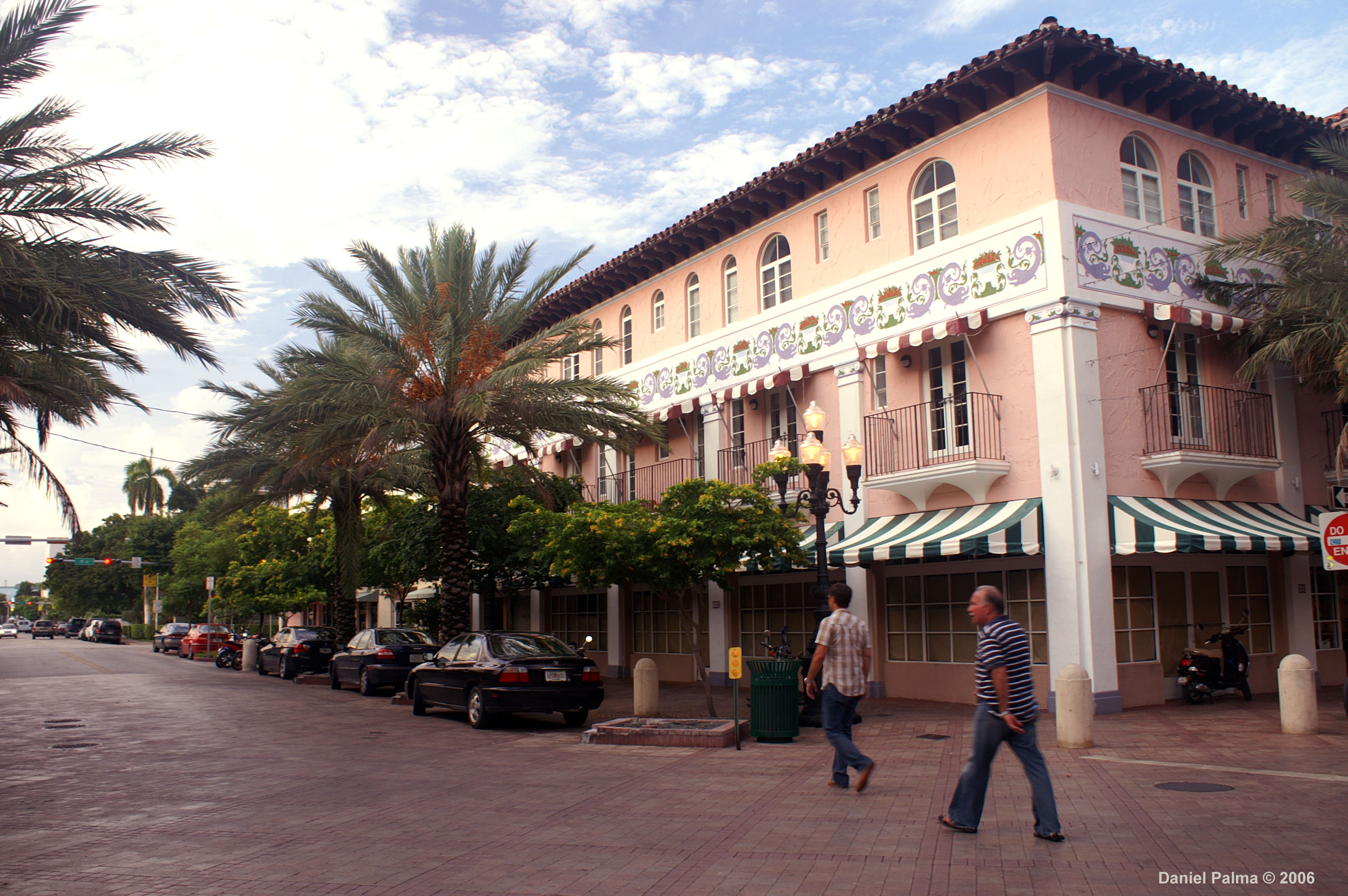 Española Way and Drexel Avenue - Plaza de España (view towards the north).